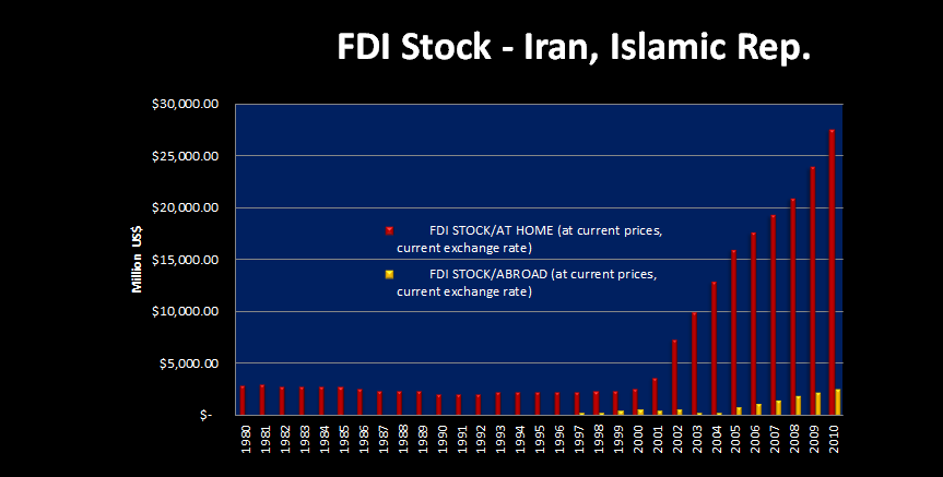 Foreign Direct Investment STOCK (at HOME & ABROAD) - Iran, Islamic Republic.